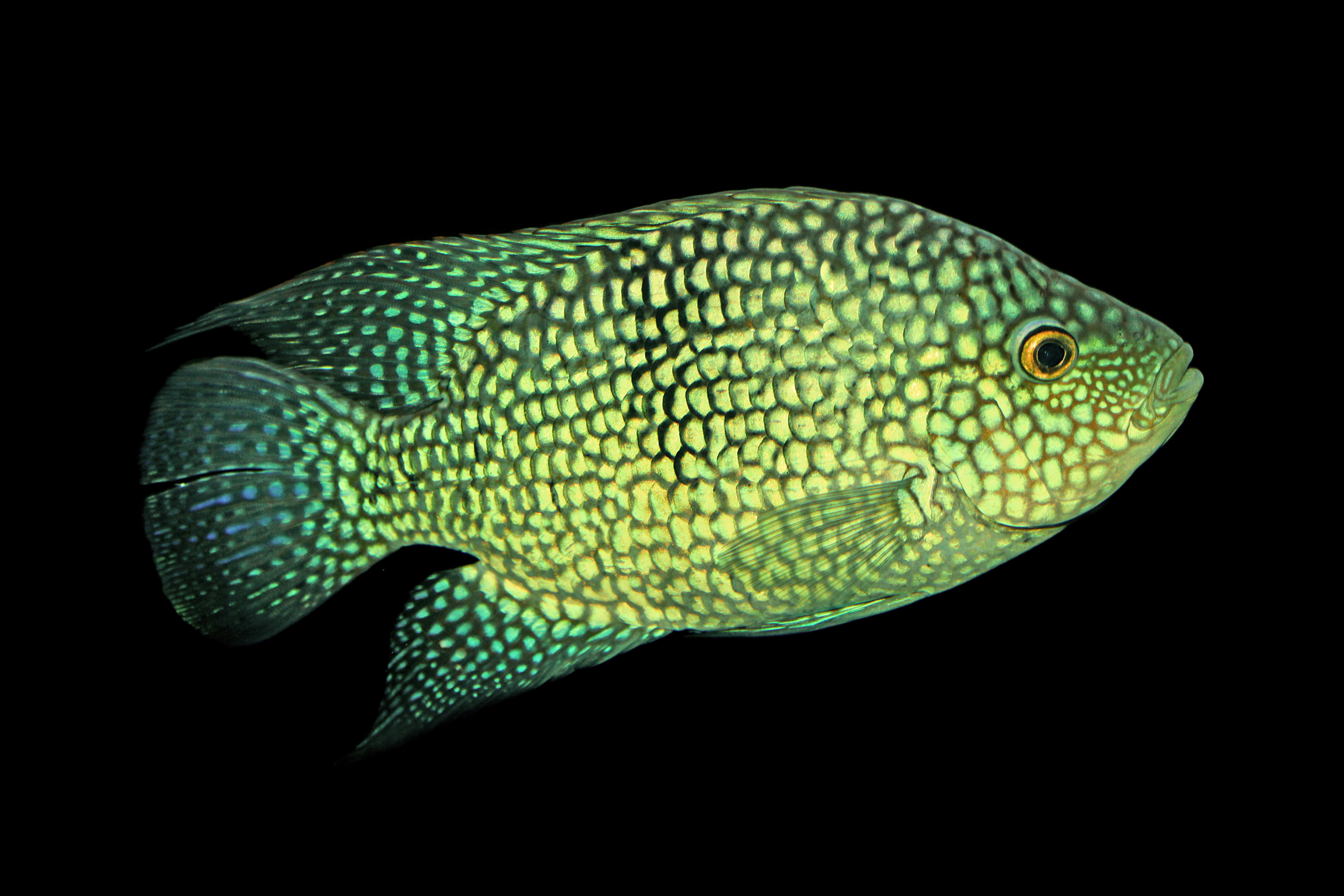 Pearlscale Cichlid; Palmitos Park, Maspalomas, Gran Canaria, Canary Islands, Spain.